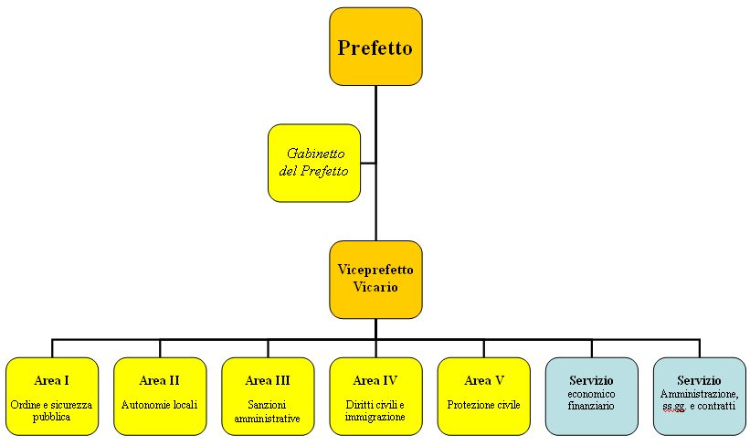 Italian prefecture typical organization